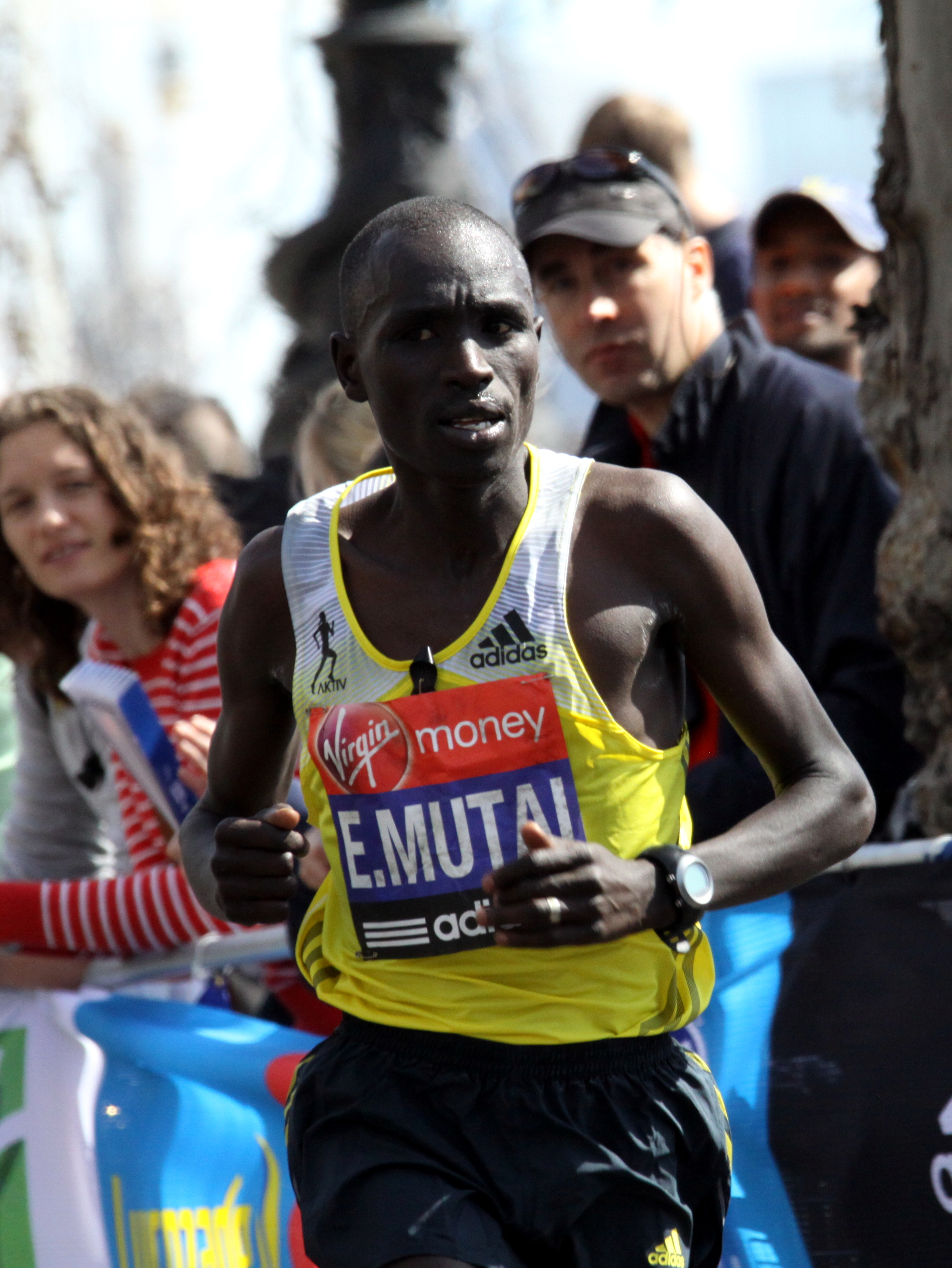 Emmanuel Mutai during 2013 London Marathon, photographed at Victoria Embankment, London, Great Britain. The making of this file was supported by Wikimedia UK. - Google Maps - Google Earth